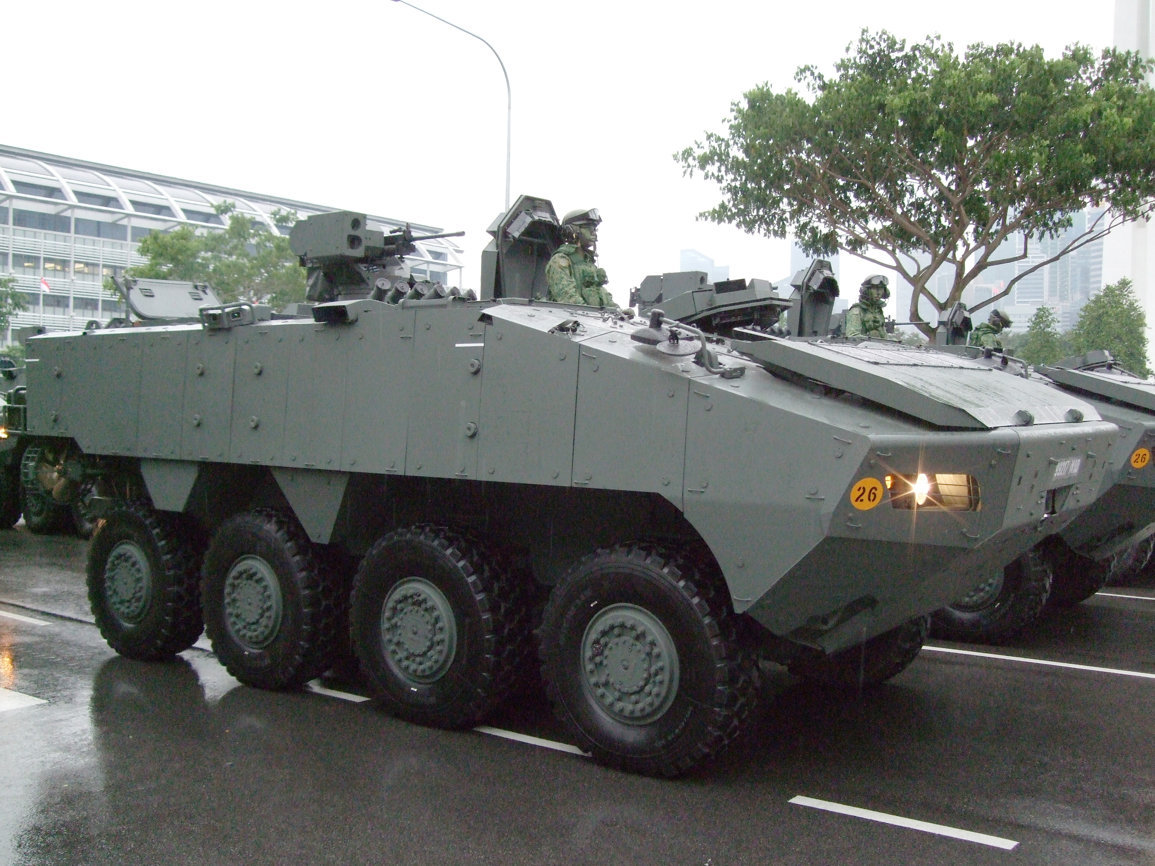 Terrex ICV, National Day Parade 2010 Combined Rehearsal 3.